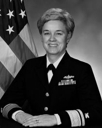 Rear Admiral Linda J. Bird, SC, USN, was the first woman in the United States Navy Supply Corps promoted to flag rank.